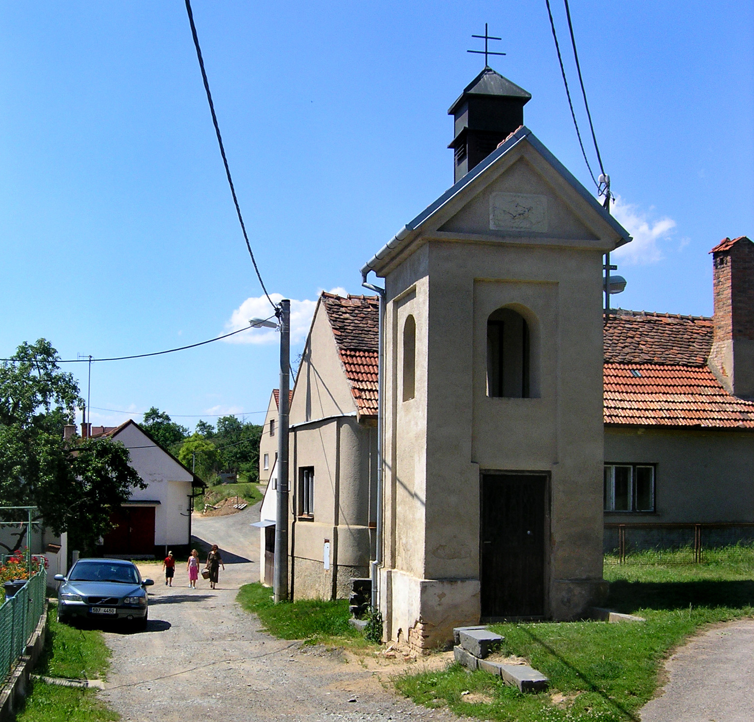 U Zvoničky street in Ořešín quarter in Brno, Czech Republic